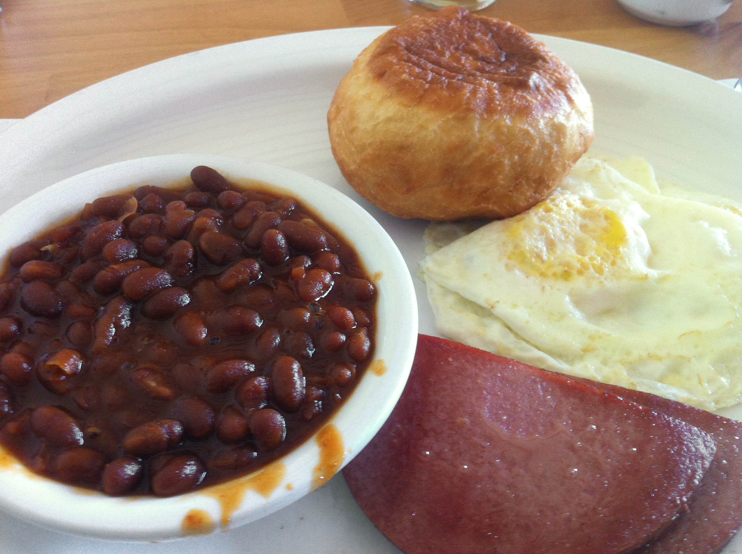 Beans, a touton, fried egg and Canadian bacon. A touton is a type of traditional pancake commonly made in Newfoundland, produced by frying bread dough on a pan with butter or pork fat.